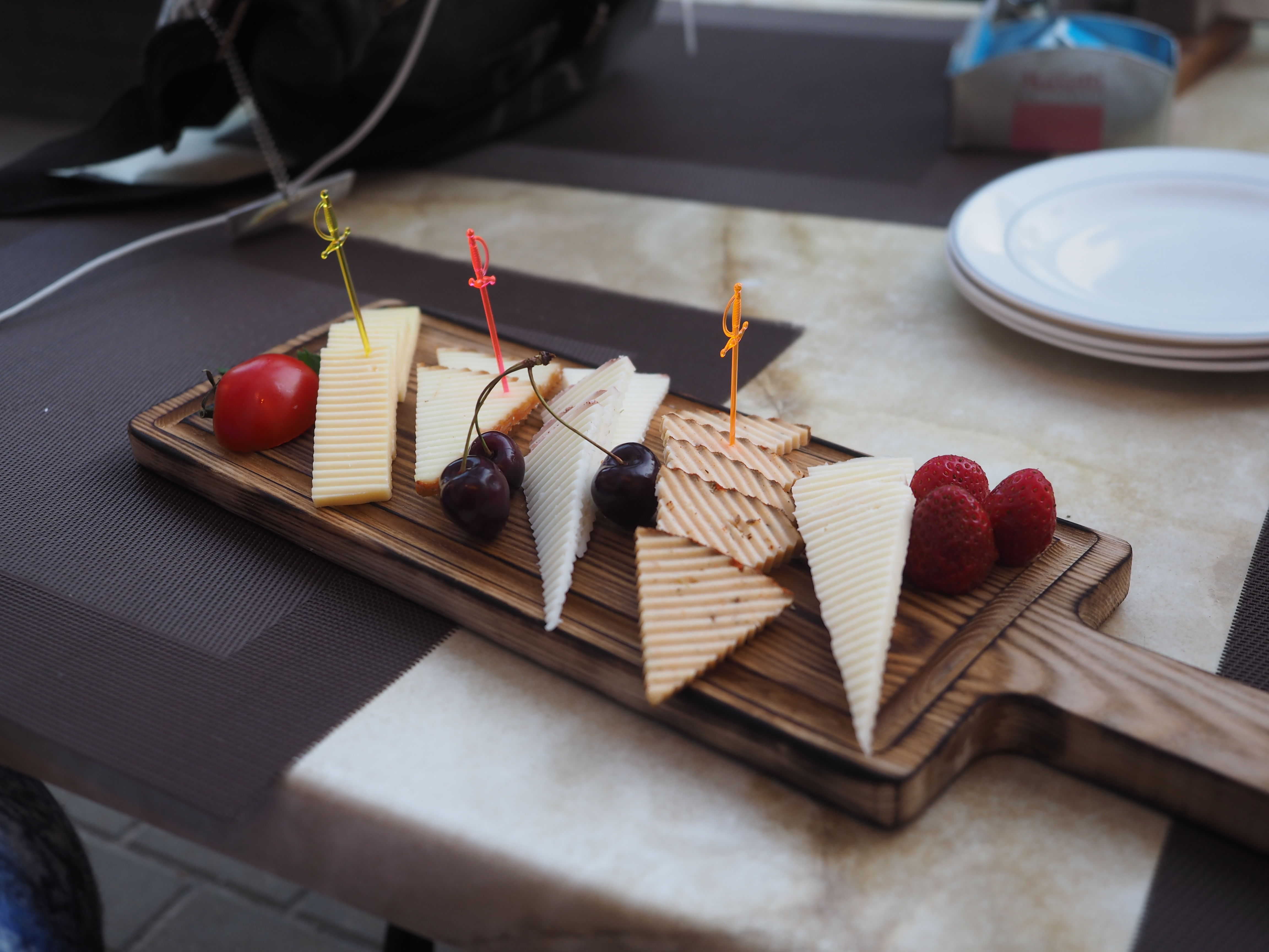 A selection of various Latvian cheeses served as an appetiser at restaurant Jura in Jurmala, Latvia.